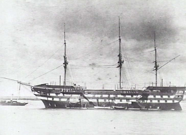 Portside photograph of the training ship HMS Worcester.